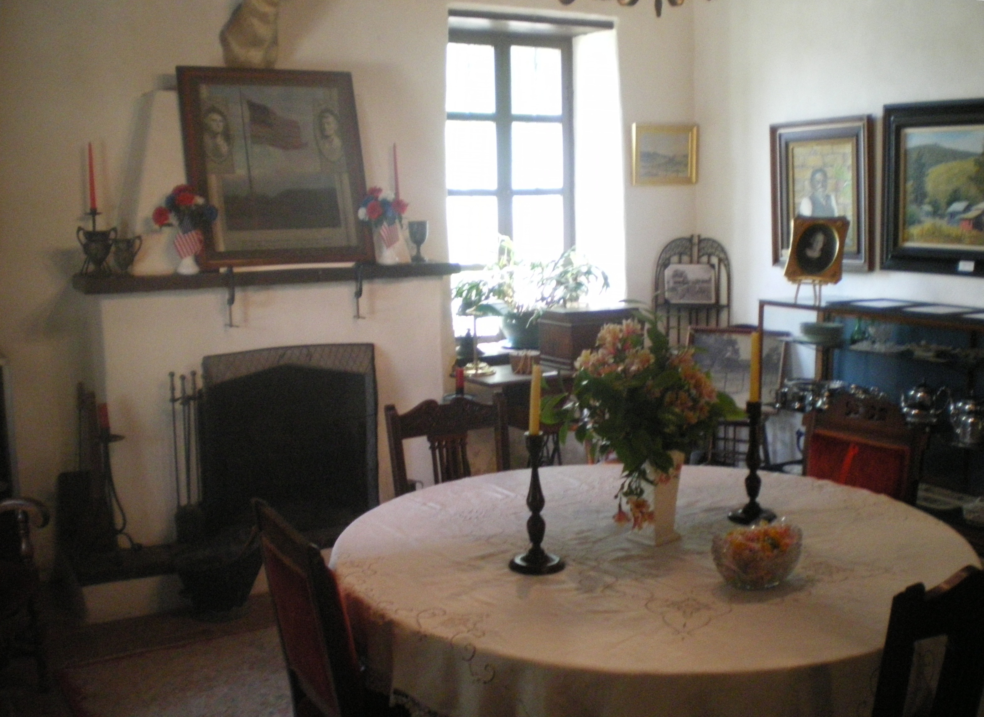 Romulo Pico Adobe, Interior with original fireplace, Mission Hills, California